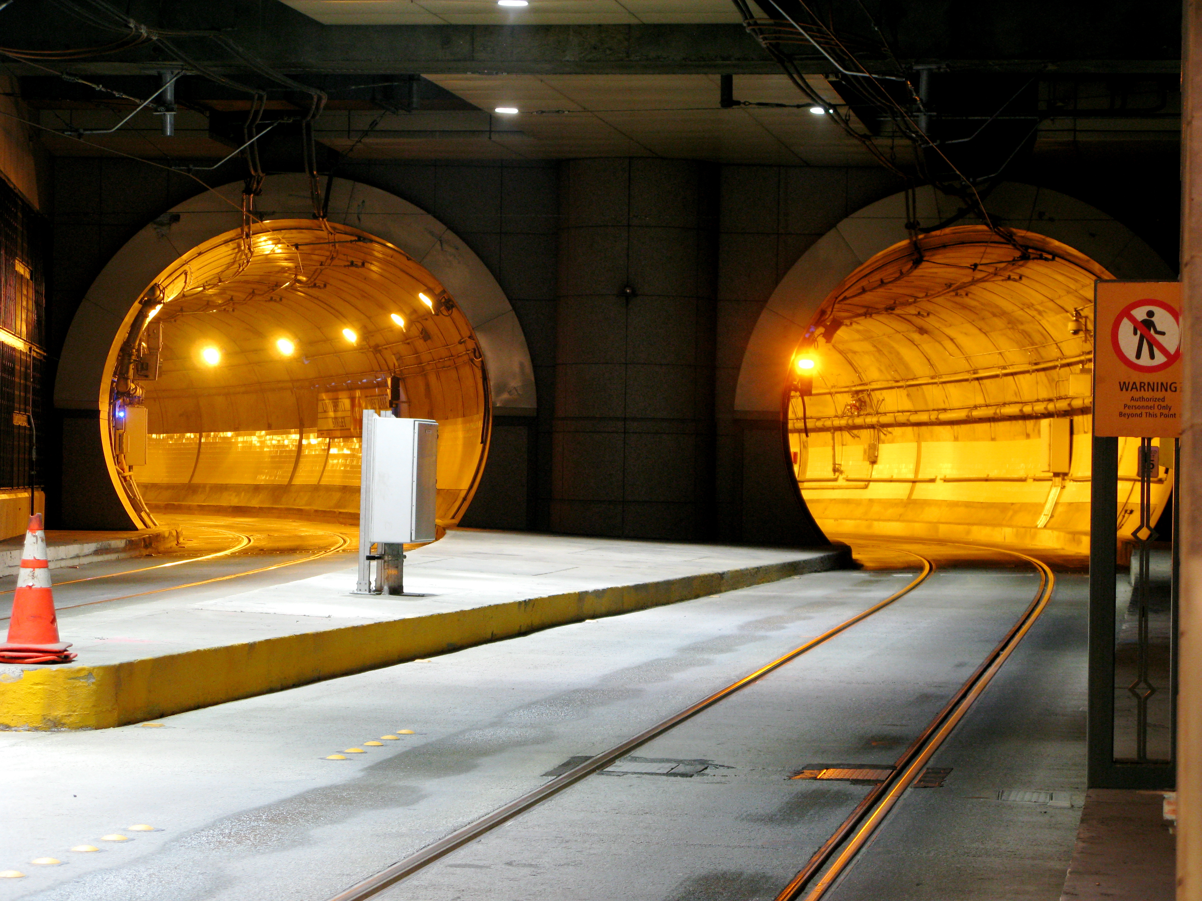 The Downtown Seattle Transit Tunnel bends towards the south under Pine St to Third Avenue after leaving Westlake Station.